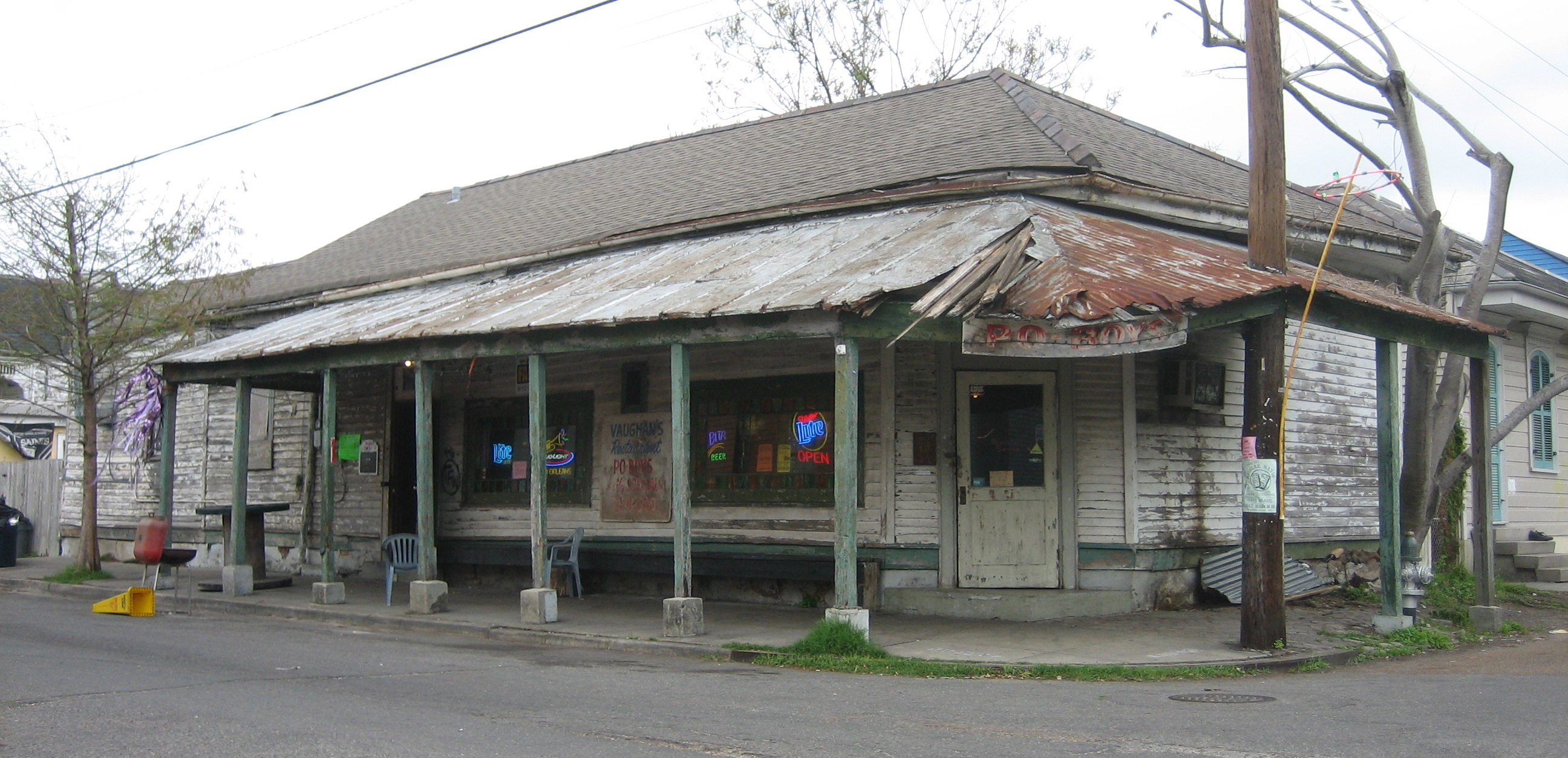 Vaughn's Lounge, neighborhood bar and locally well known live music venue in the Bywater neighborhood, New Orleans Photo by Infrogmation